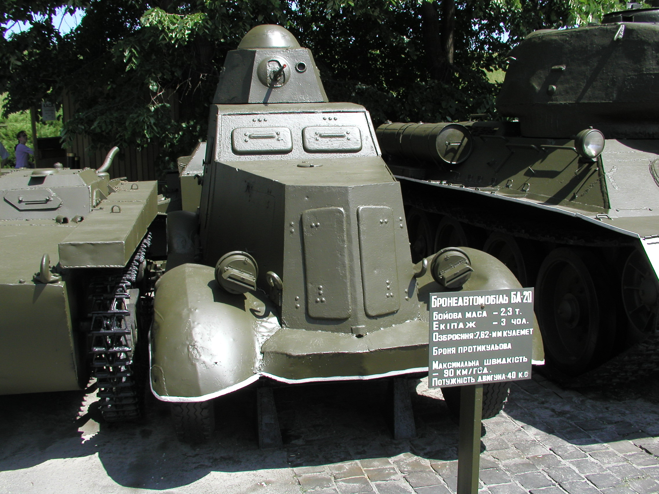 BA-20 Soviet armored car (Museum of the Great Patriotic War, Kiev, Ukraine)